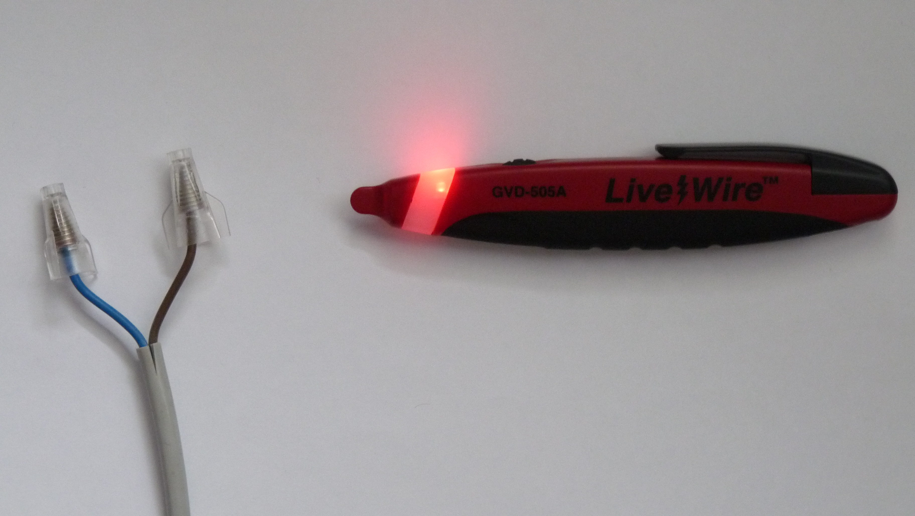 Example of defining energized cable by wireless tester.